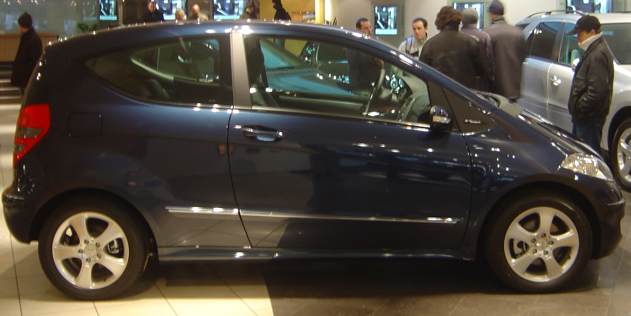 Mercedes-Benz car shown in their show-room on the Champs-Élysées, Paris, France